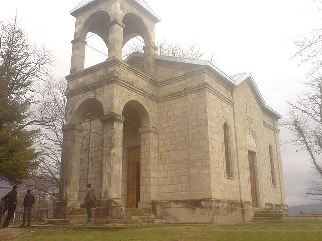 Marelisi church